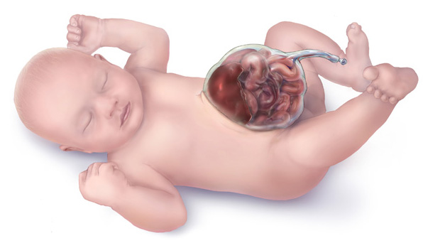 The images are in the public domain and thus free of any copyright restrictions. As a matter of courtesy we request that the content provider (Centers for Disease Control and Prevention, National Center on Birth Defects and Developmental Disabilities) be credited and notified in any public or private usage of this image.